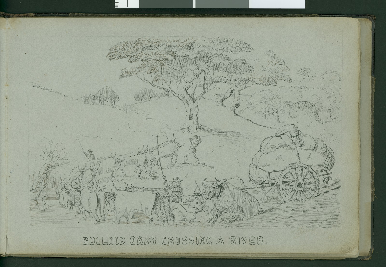 Men whipping on a team of bullocks bulling a laden wagon across a river, other teams pulling wagons further up the track among the trees